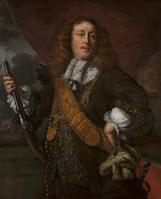 This image is available from the Netherlands Institute for Art Historyunder digital ID 168529. This tag does not indicate the copyright status of the attached work. A normal copyright tag is still required. See Commons:Licensing.